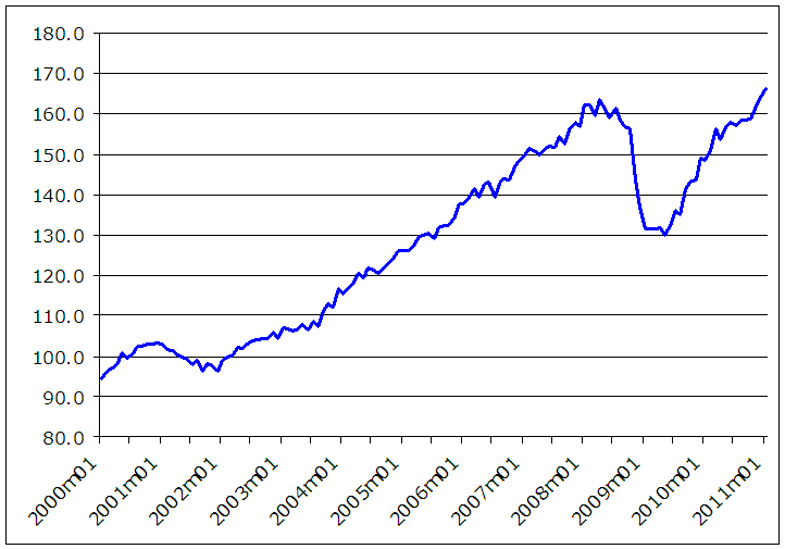 Evolution of World Trade, 1991-2010 in 2000 USD. 2000=100. Source: World Trade Monitor, CPB Netherlands Bureau for Economic Policy Analysis[1]